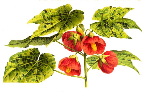 Abutilon darwini